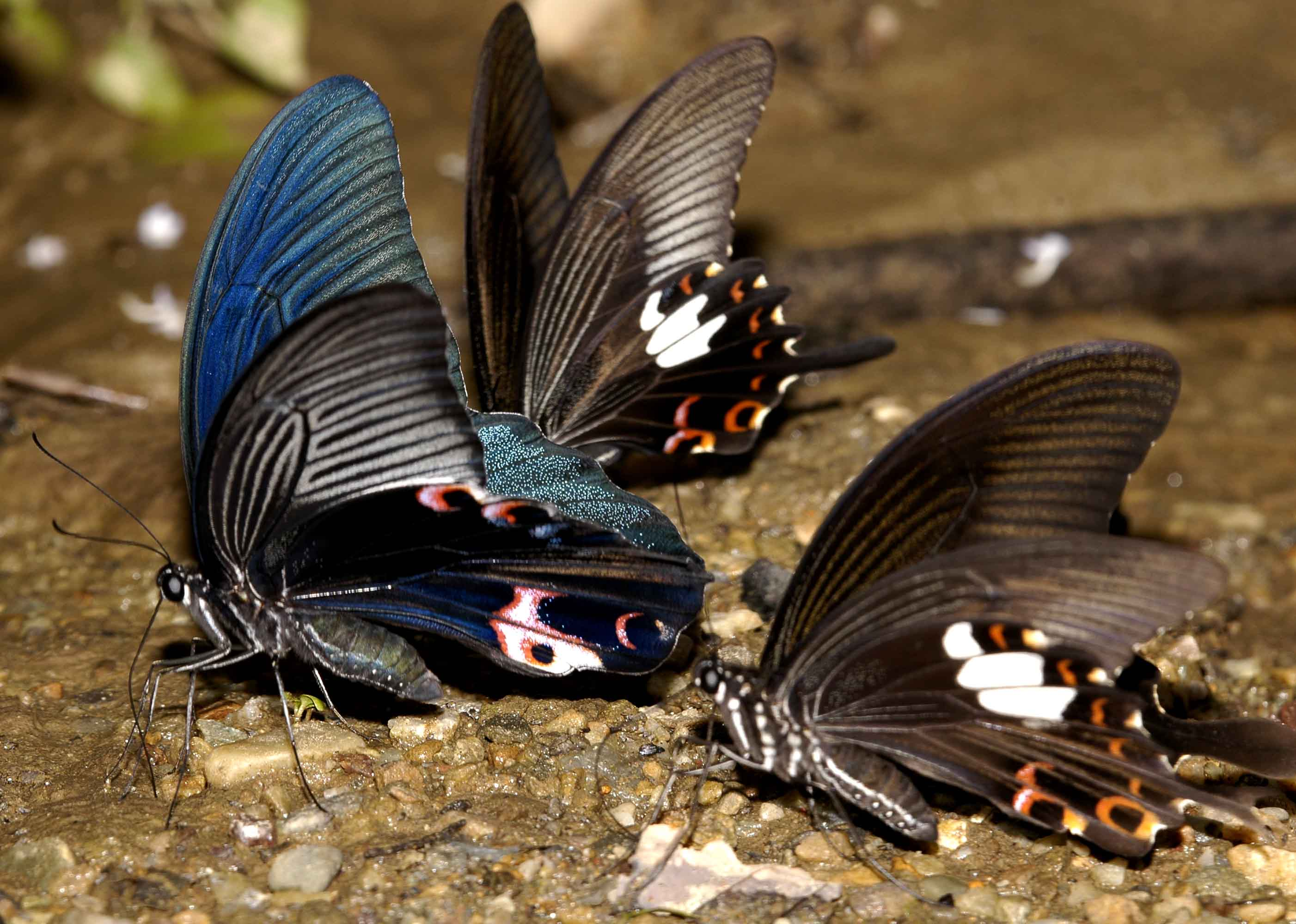 Spangle Papilio protenor (single, left) and Red Helen Papilio helenus (two, right) Family Papilionidae, Lepidoptera